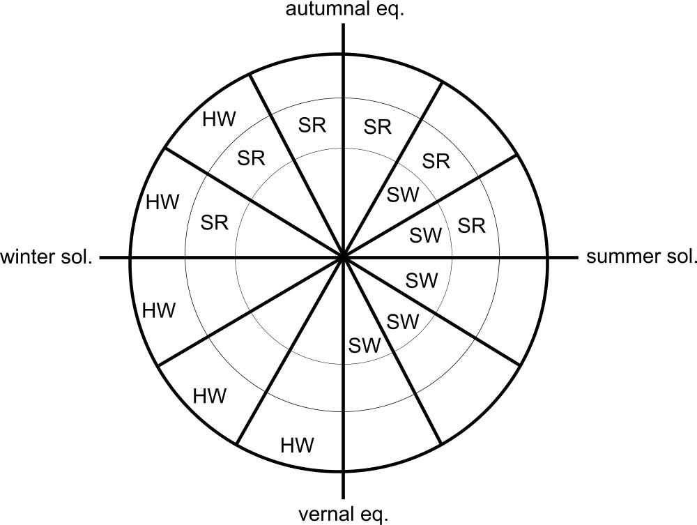 Scheme shows the appropriate type of cuttings according to (astronomical) seasons, HW hardwood, SW softwood, SR